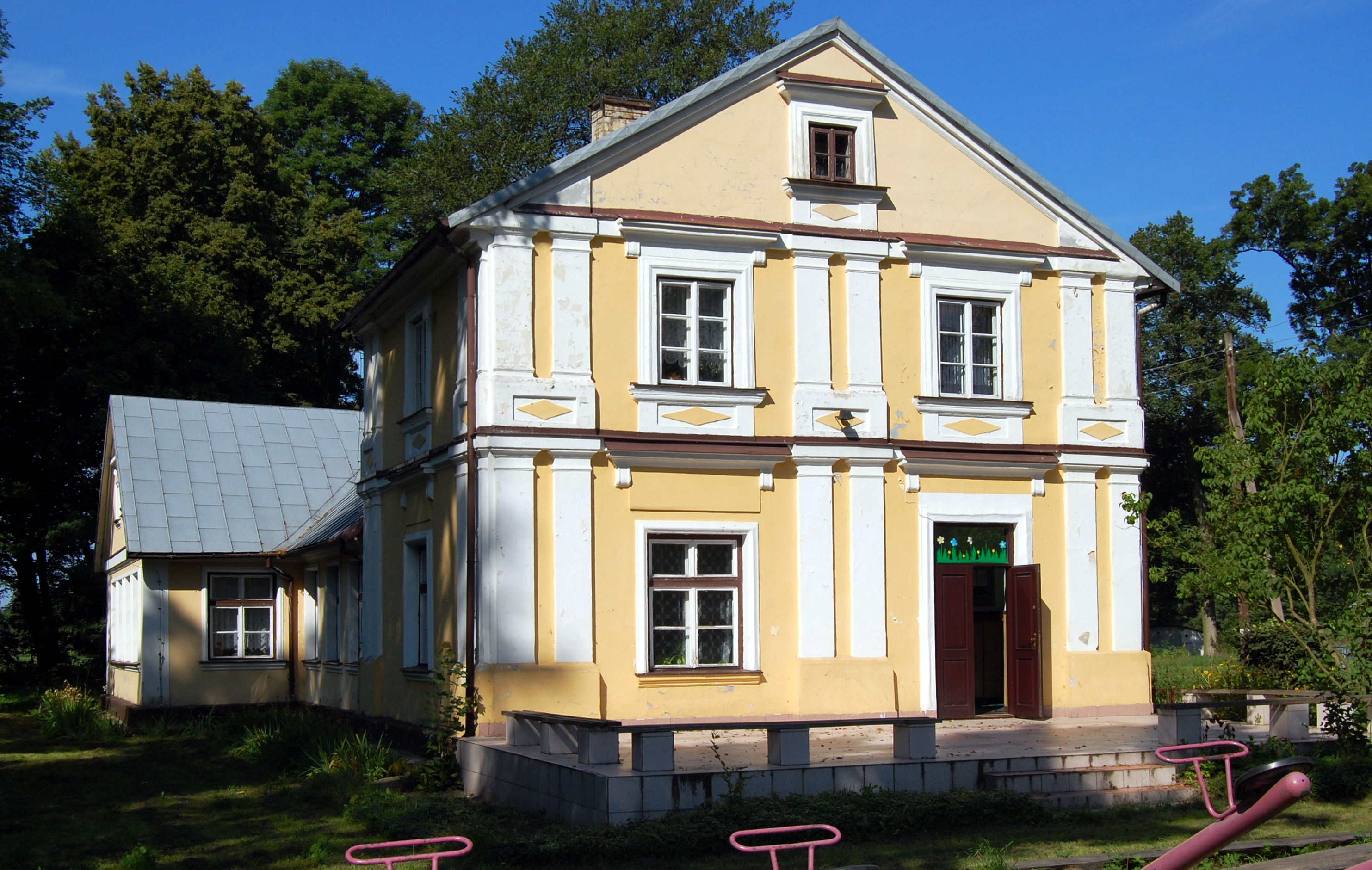 Old manor house in Stare Zadybie, Lublin Voivodeship, Poland. Nowdays it houses a school.